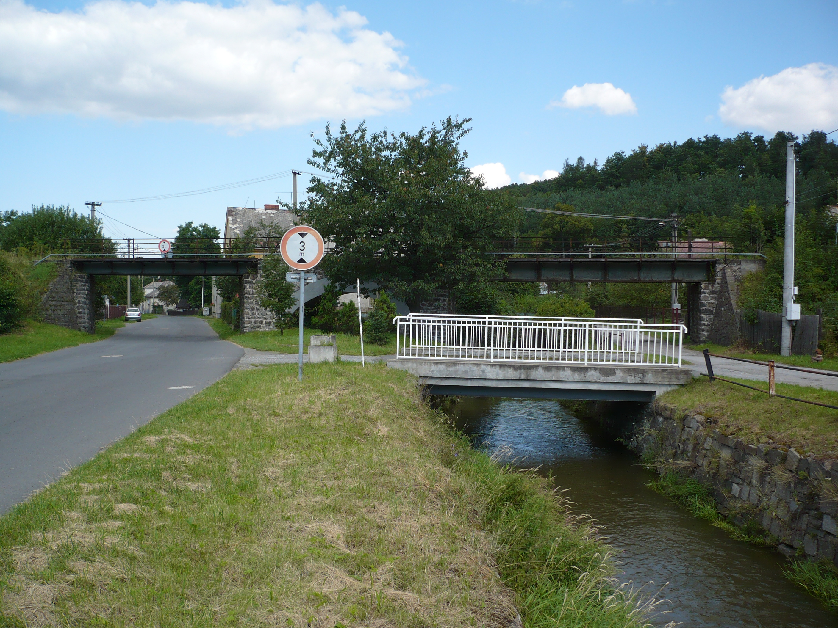 Railway bridge over Mušlov in Třemešná